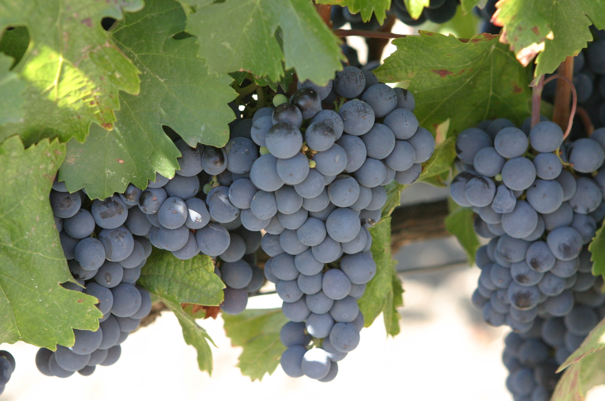 Malbec grapes. Taken at the Robert Mondavi Winery in Rutherford, California (in the Napa Valley), California.